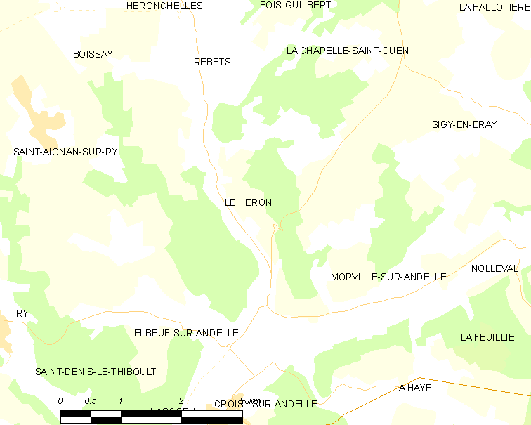 Map of French municipality Le Héron